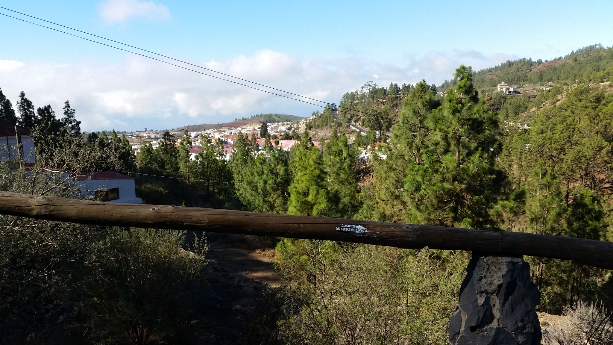 A little village on the island of Tenerife, Spain.